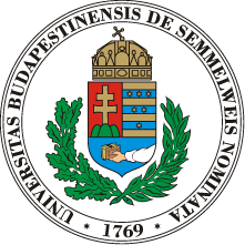 Crest of the Semmelweis University.